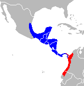 Range map for Ateles geoffroyi (blue) and A. fusciceps (red)